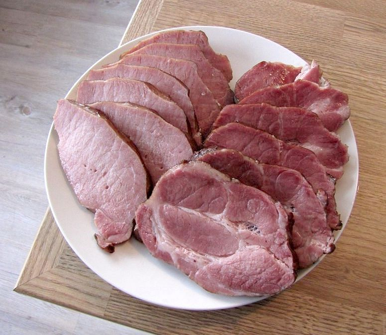 ham from the BBQ-Pit